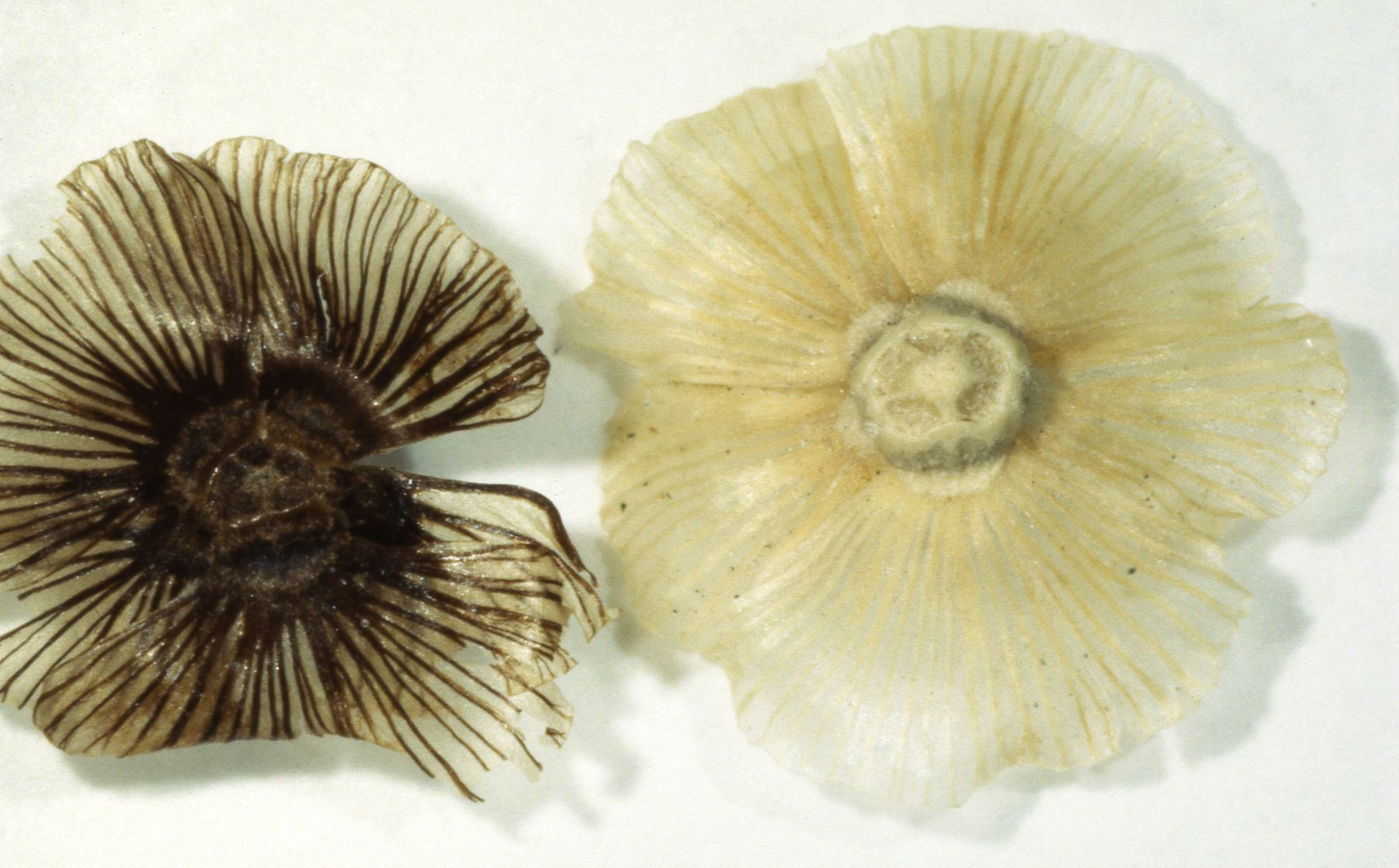 Fruits of Halothamnus bottae, bottom. The dark fruit is from H. bottae subsp. niger, the light fruit from subsp. bottae. Herbarium specimen of subsp. niger collected in Yemen by M. Deflers, No. 287. Herbarium specimen of subsp. bottae collected in Saudi Arabia by L. Boulos & A.S. Ads, No. 13808.